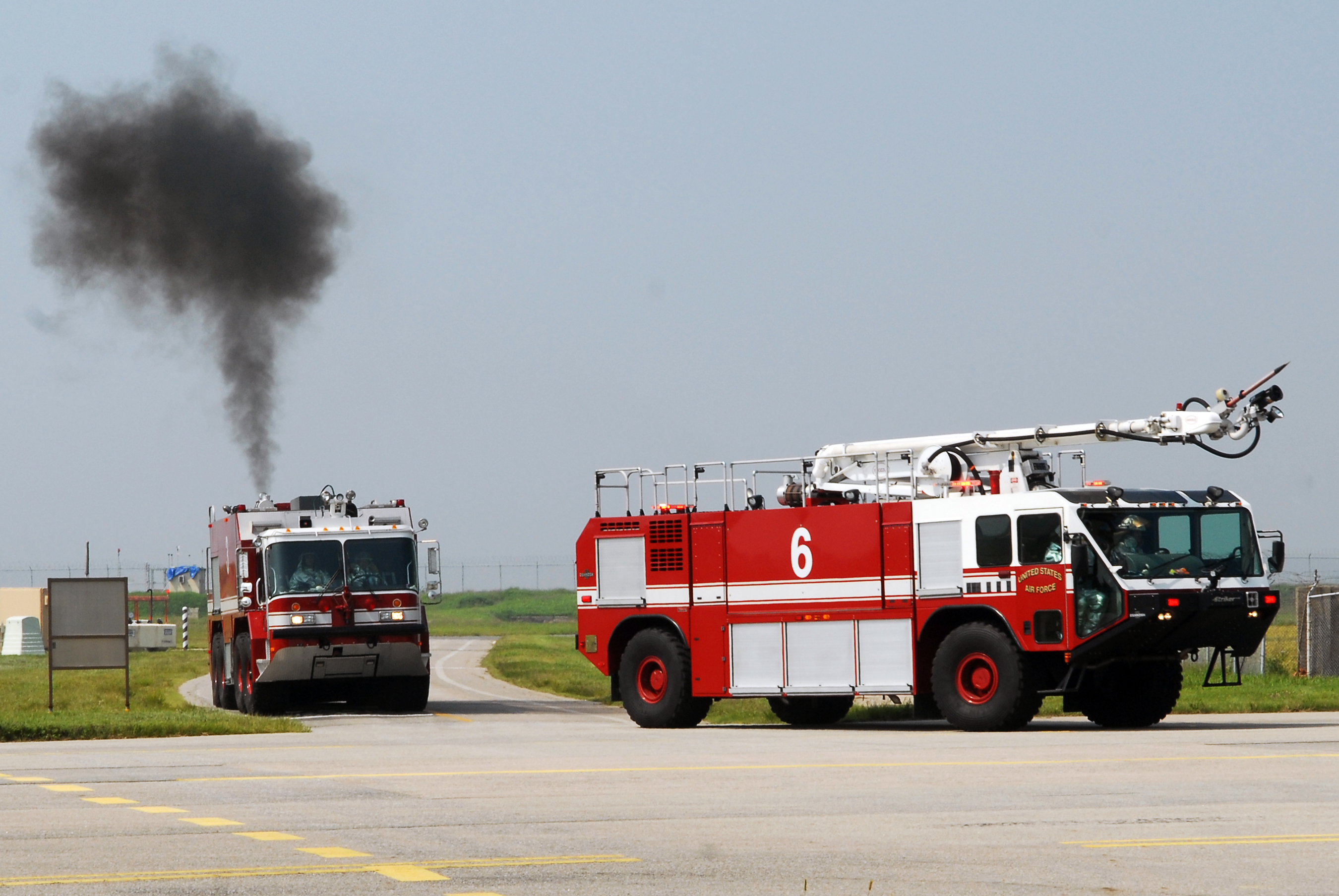 Members of the 8th Civil Engineer Squadron and South Korean fire departments respond to a simulated hostage exercise at the Gunsan airport Sept. 17, 2010, at Kunsan Air Base, South Korea. The exercise is conducted annually to enhance counterterrorism and prepare emergency responders for real-life situations.